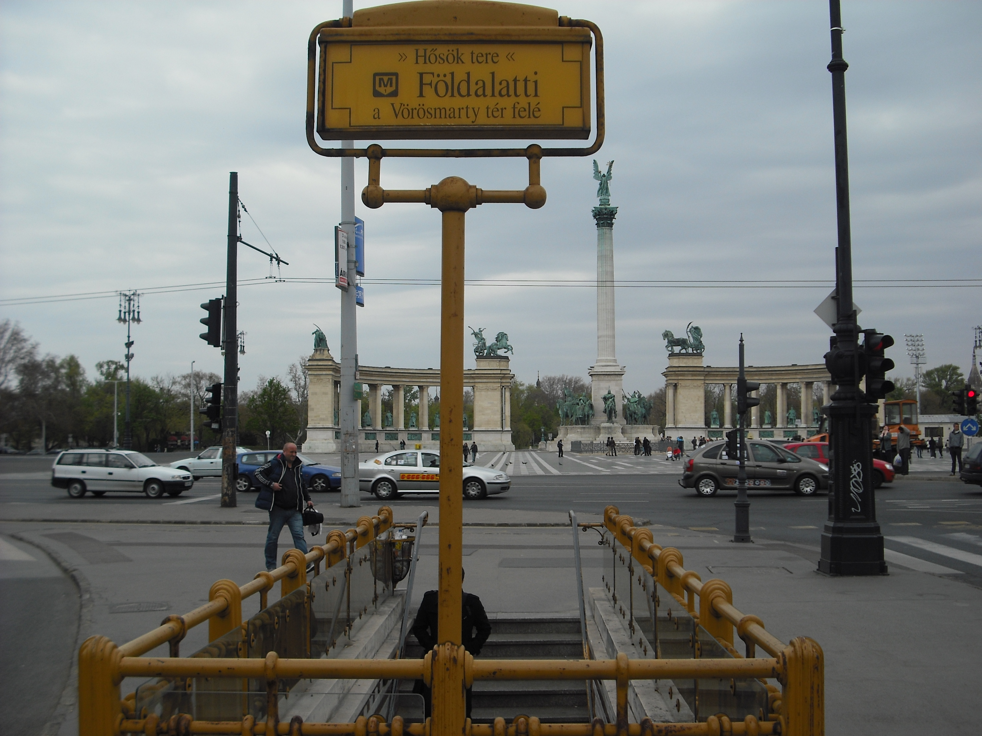 Outside of the station Hősök tere, on Budapest Metro system.